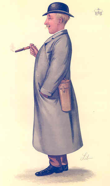 Caricature of George Manners Astley, 20th Baron Hastings (1857-1904). Caption read "Melton".